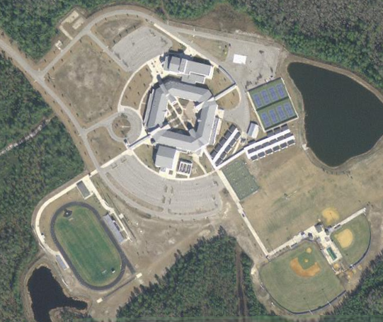 Screenshot of a satellite image of Bartram Trail High School in Florida (United States).